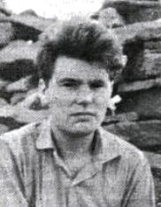 Lev Detela (1939-), Slovene poet, writer and publisher